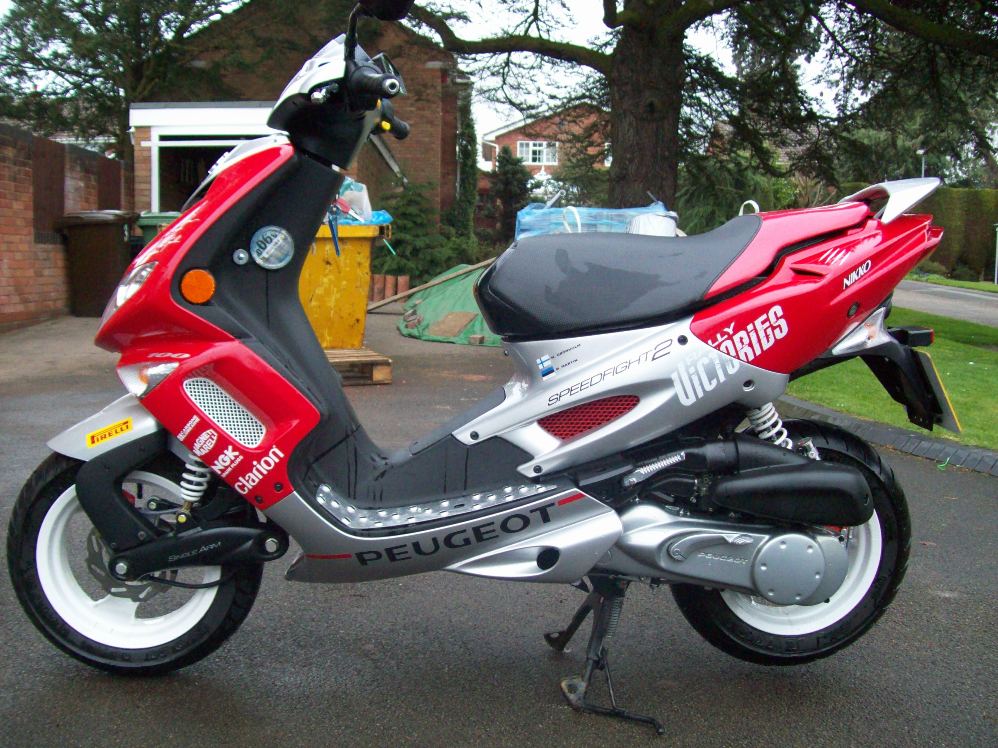 A Peugeot Speedfight scooter. Pictured is a 2008 Rally Victories 100cc version